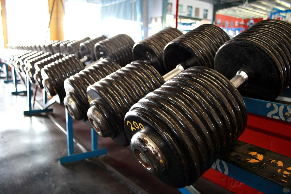 200 pounds heavy dumbbells